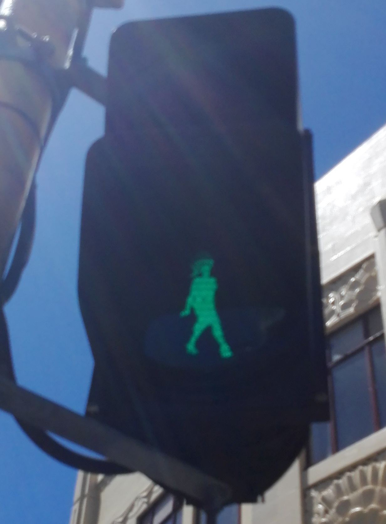 A green pedestrial light depicting Carmen Rupe on Cuba Street, Wellington.